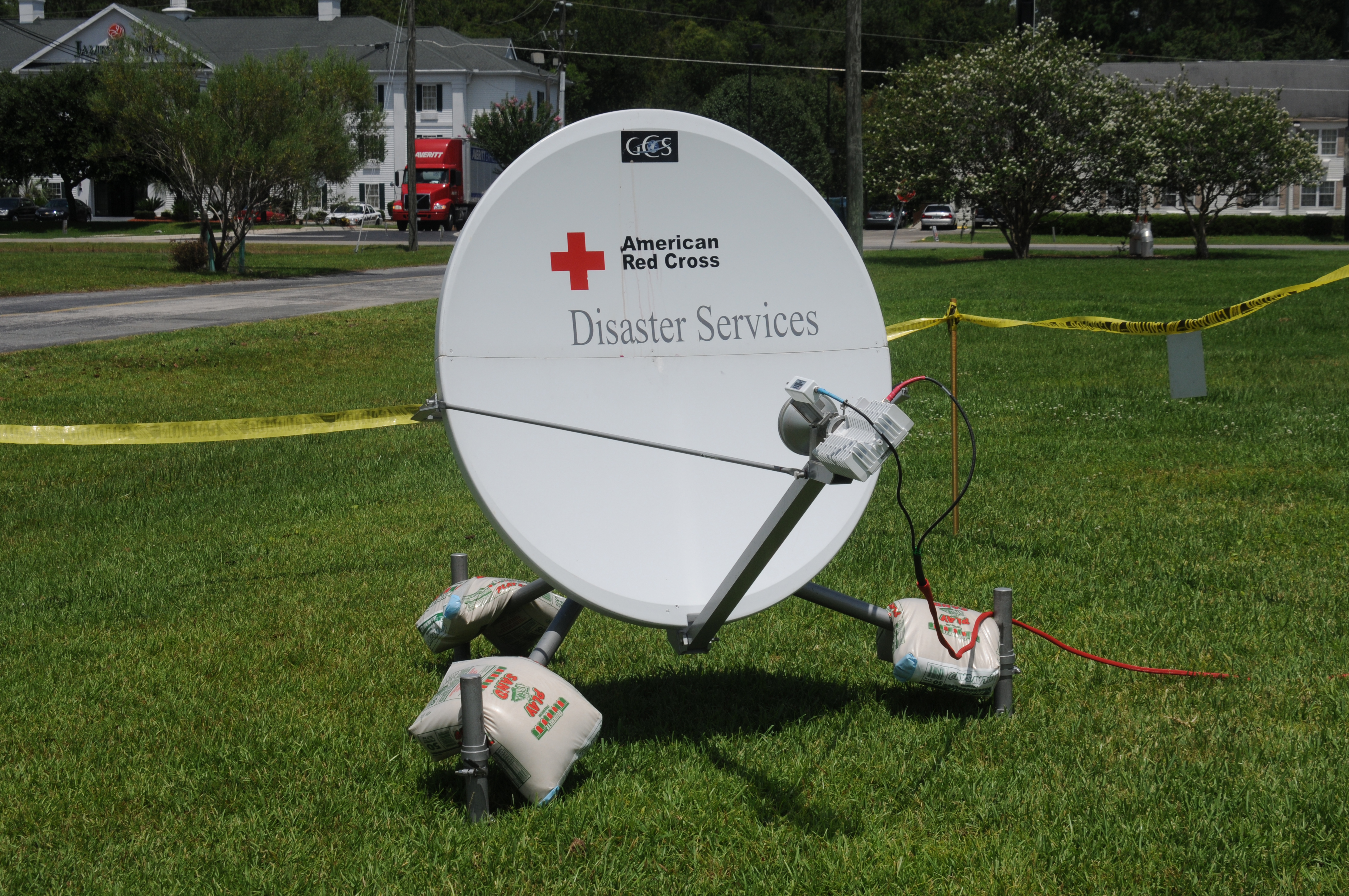 Lake City, Fla., July 9, 2012 -- A Red Cross Emergency Operations Center communications antenna is set at the building adjacent to the Columbia County FEMA/State Disaster Recovery Center. FEMA and the Red Cross are partners in disaster services to Tropical Storm Debby survivors. George Armstrong/FEMA - Location: Lake City, FL